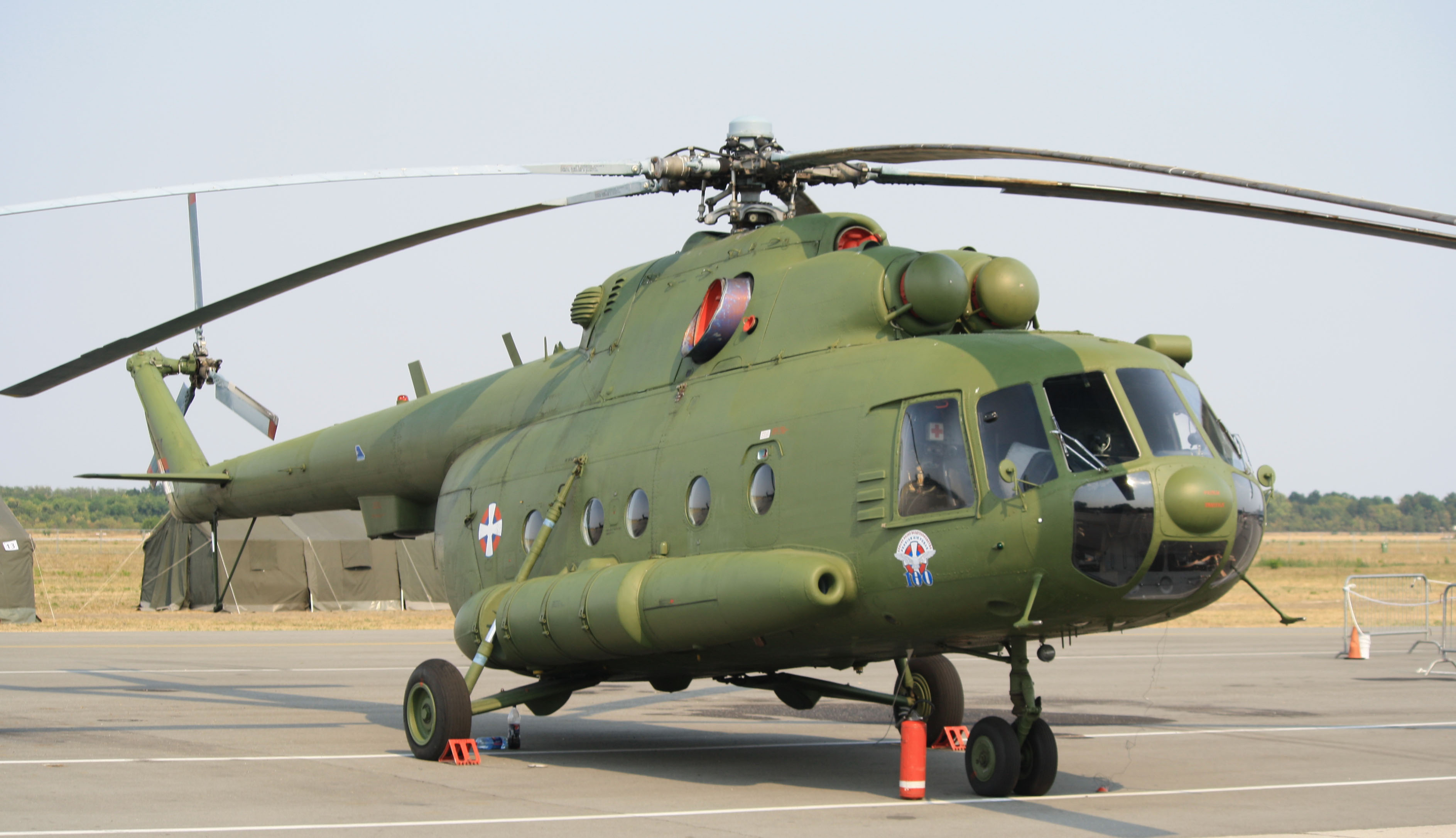 Мil Mi-17 No.12551 transport helicopter of 890. Mixed Helicopter Squadron, 204th Air Brigade of Serbian Air Force, on display at Batajnica Air Show 2012 held to celebrate 100 years of Serbian Air Force.